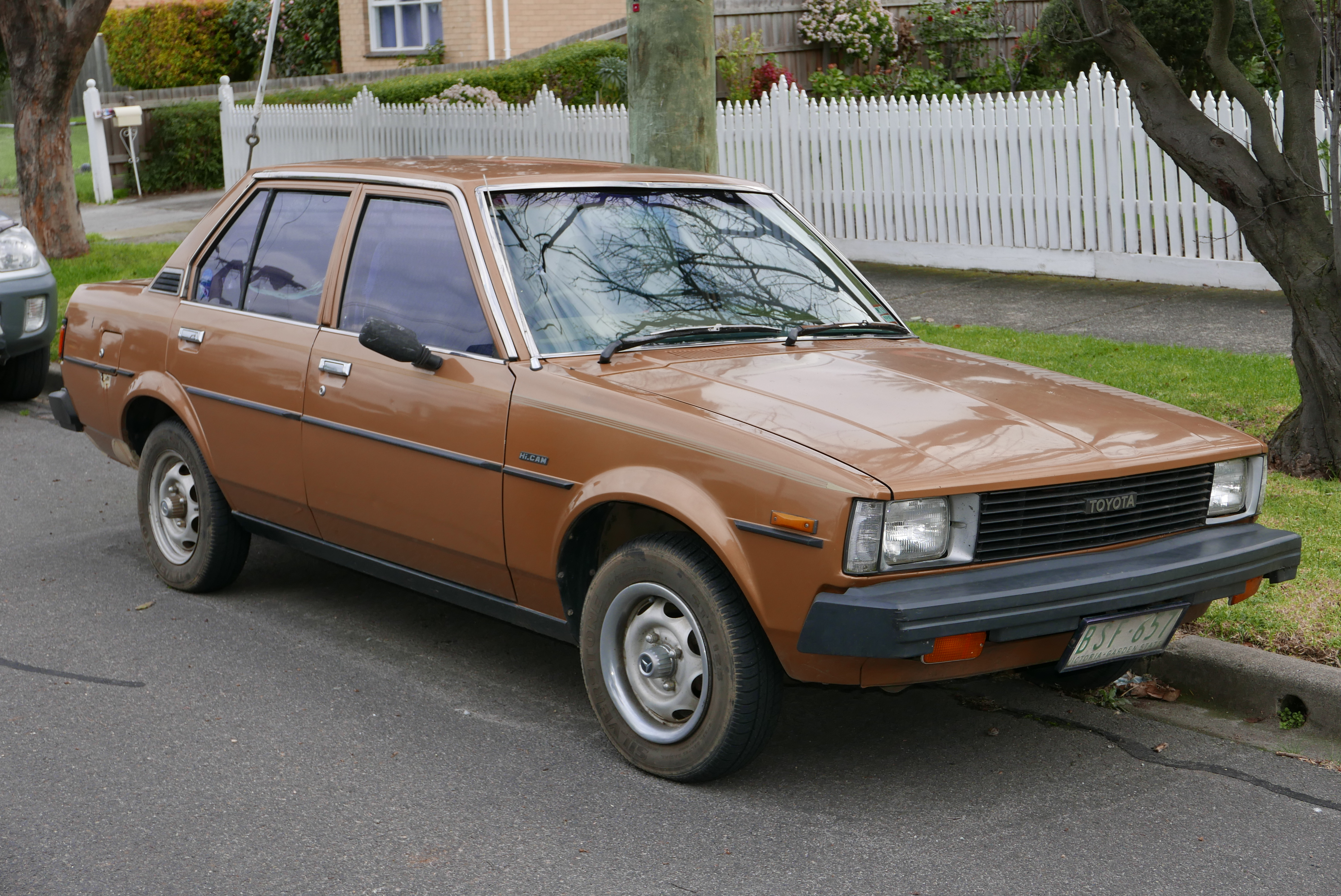 1983 Toyota Corolla (KE70) CS sedan. Photographed in Fairfield, Victoria, Australia. Vehicle registration enquiry results Jurisdiction Victoria Registration BSF657 Chassis code Not available Engine code 4K9083455 Compliance date Not available Year of manufacture 1983